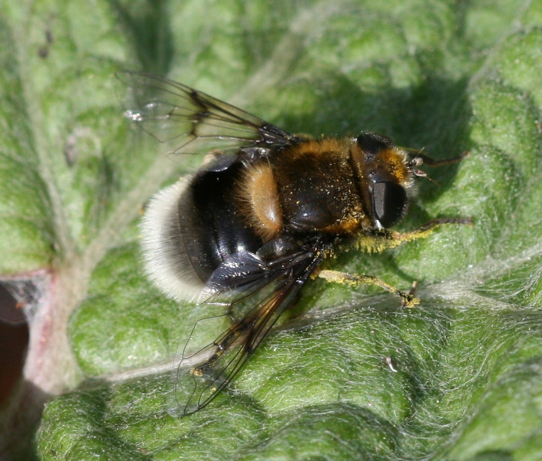 Eristalis intricaria (female) Humbie, East Lothian, Scotland.